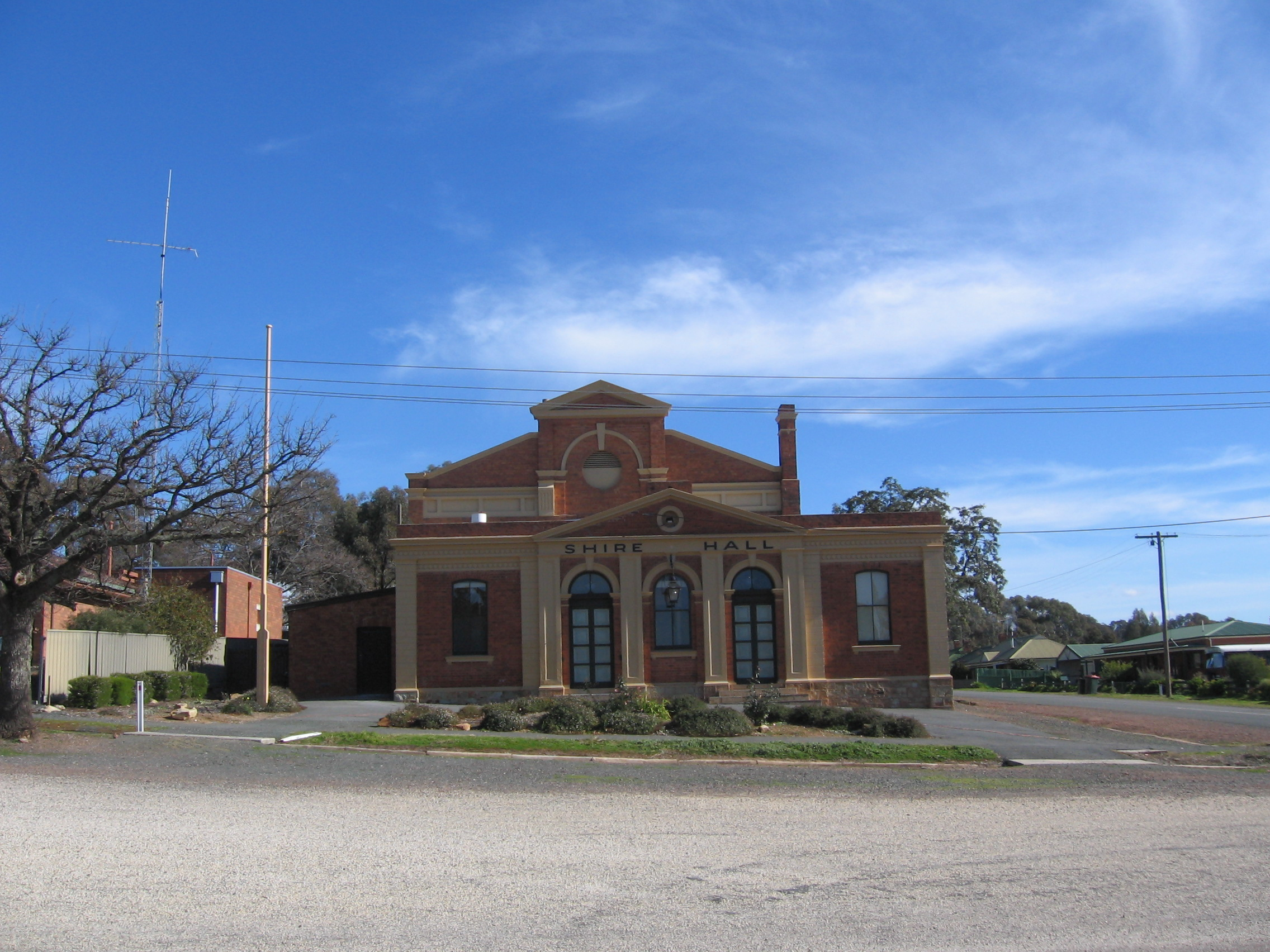 Former Waranga Shire Hall at Rushworth, Victoria